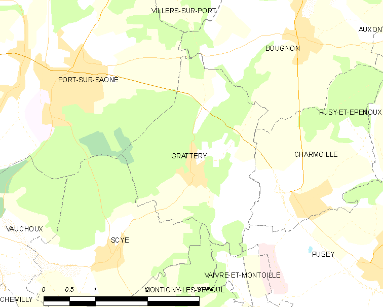 Map of French municipality